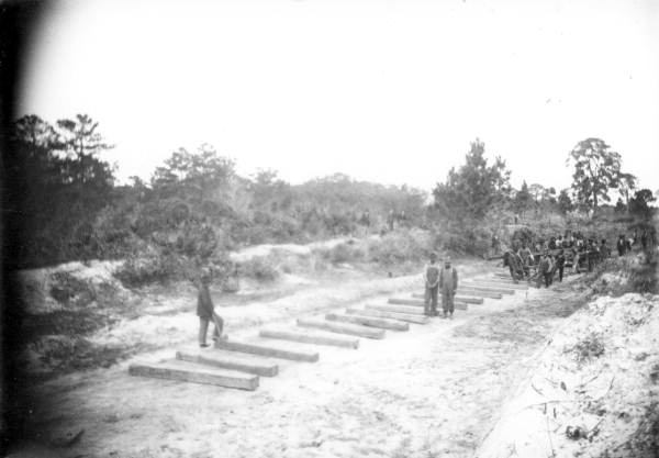 Railroad under construction in Sarasota, Florida